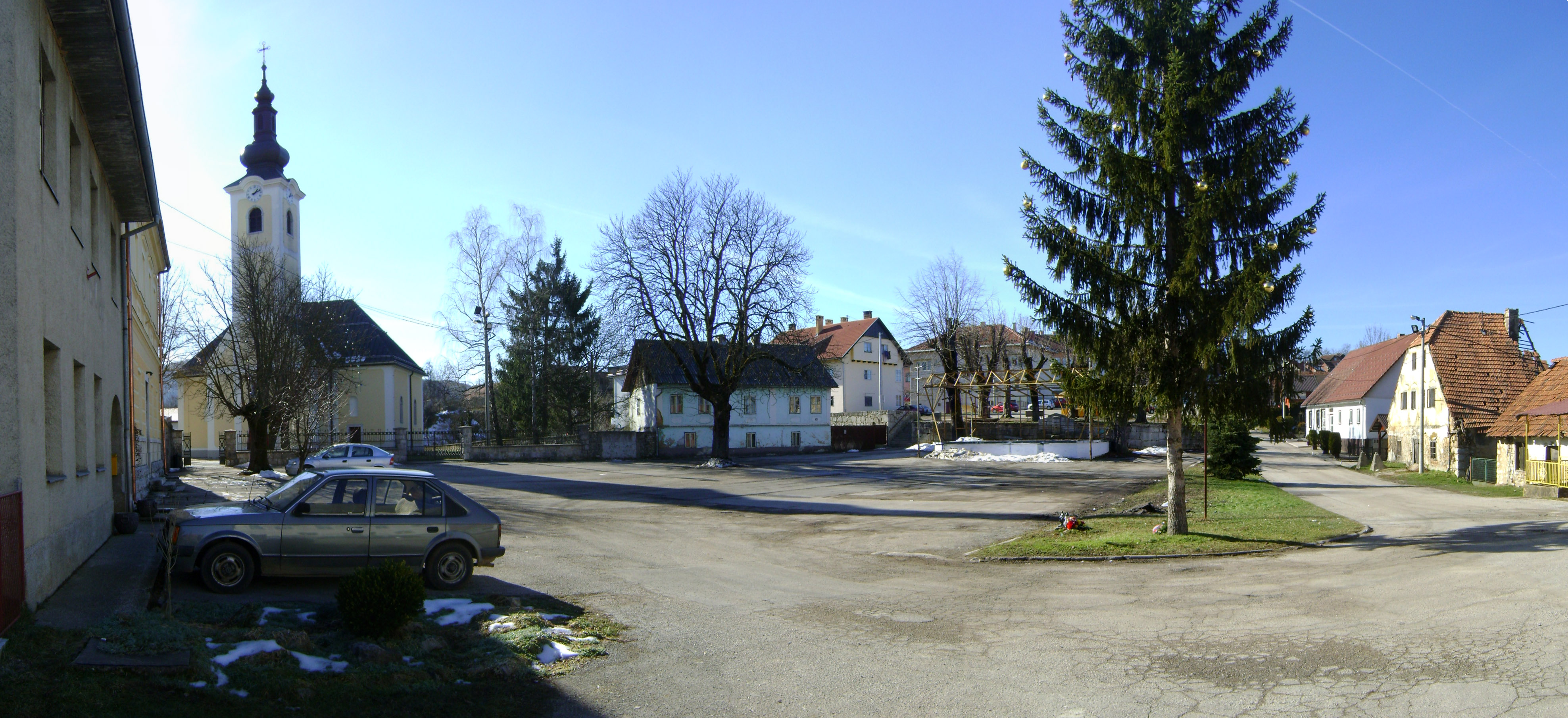 Zrinski and Frankopan Square in Slunj, Croatia.